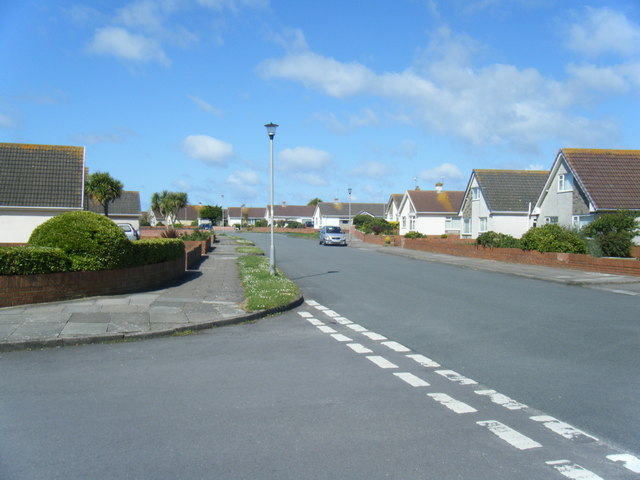 Rest Bay, Porthcawl Sandpiper Road seen from the junction of Seagull Way.